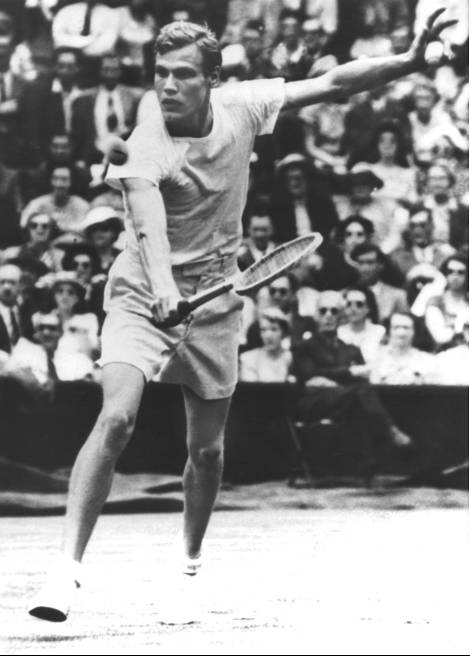 The tennis player Lennart Bergelin in a game 1950.